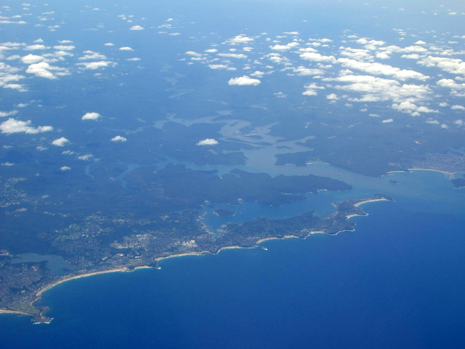 Aerial photograph taken on a flight from Newcastle to Melbourne. Taken by Tim Starling. Pentax Optio S30.